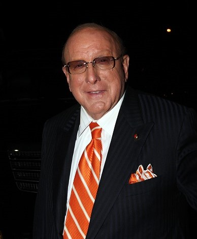 Legendary record producer Clive Davis, Chairman & CEO, BMG Label Group, outside the XChange event space where Vacheron Constantin watch company honored him for his achievement in the music industry as a Multi-Platinum selling Record Producer and Executive. November 13, 2007.